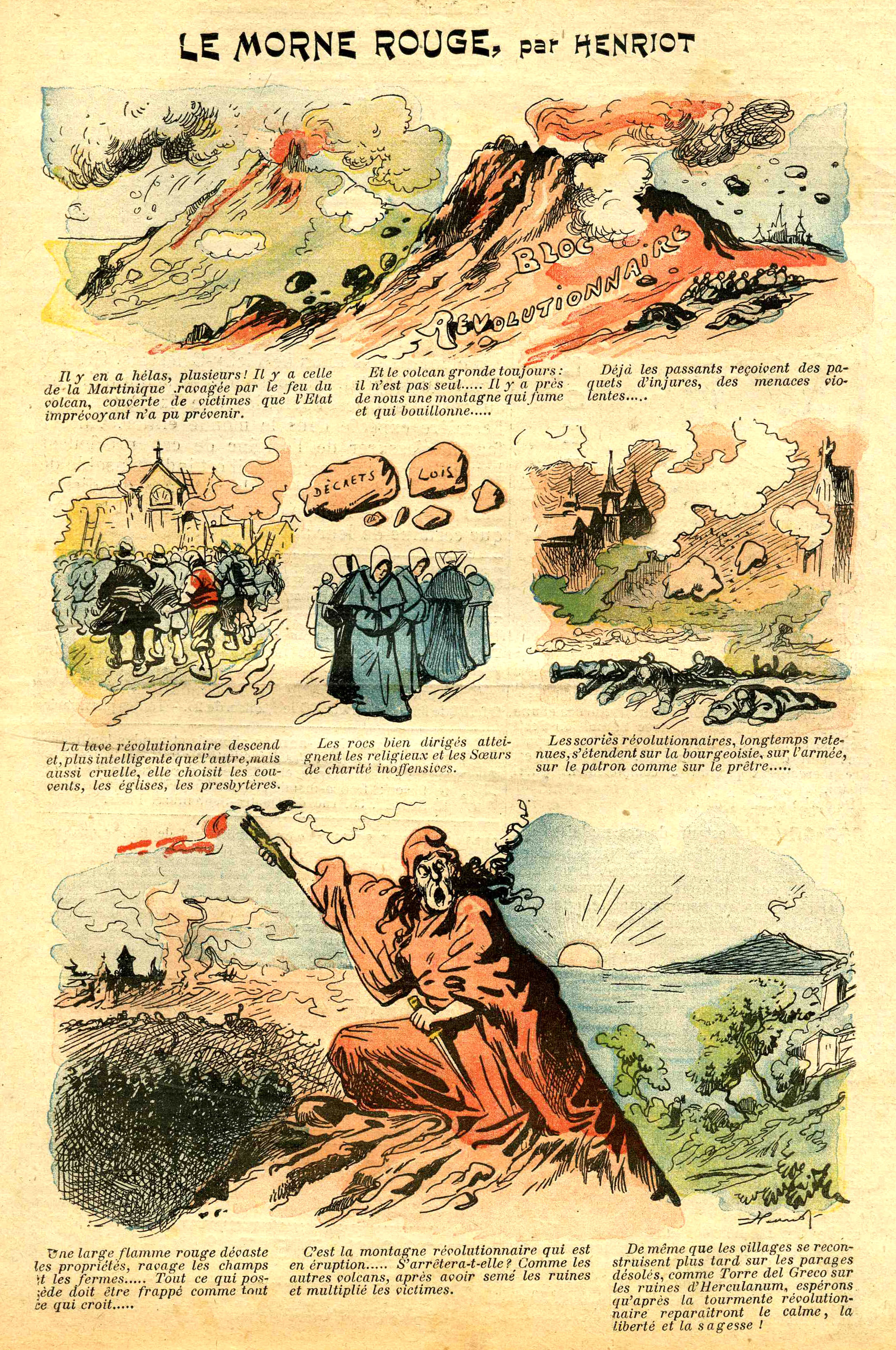 Comic strip by French caricaturist Henriot